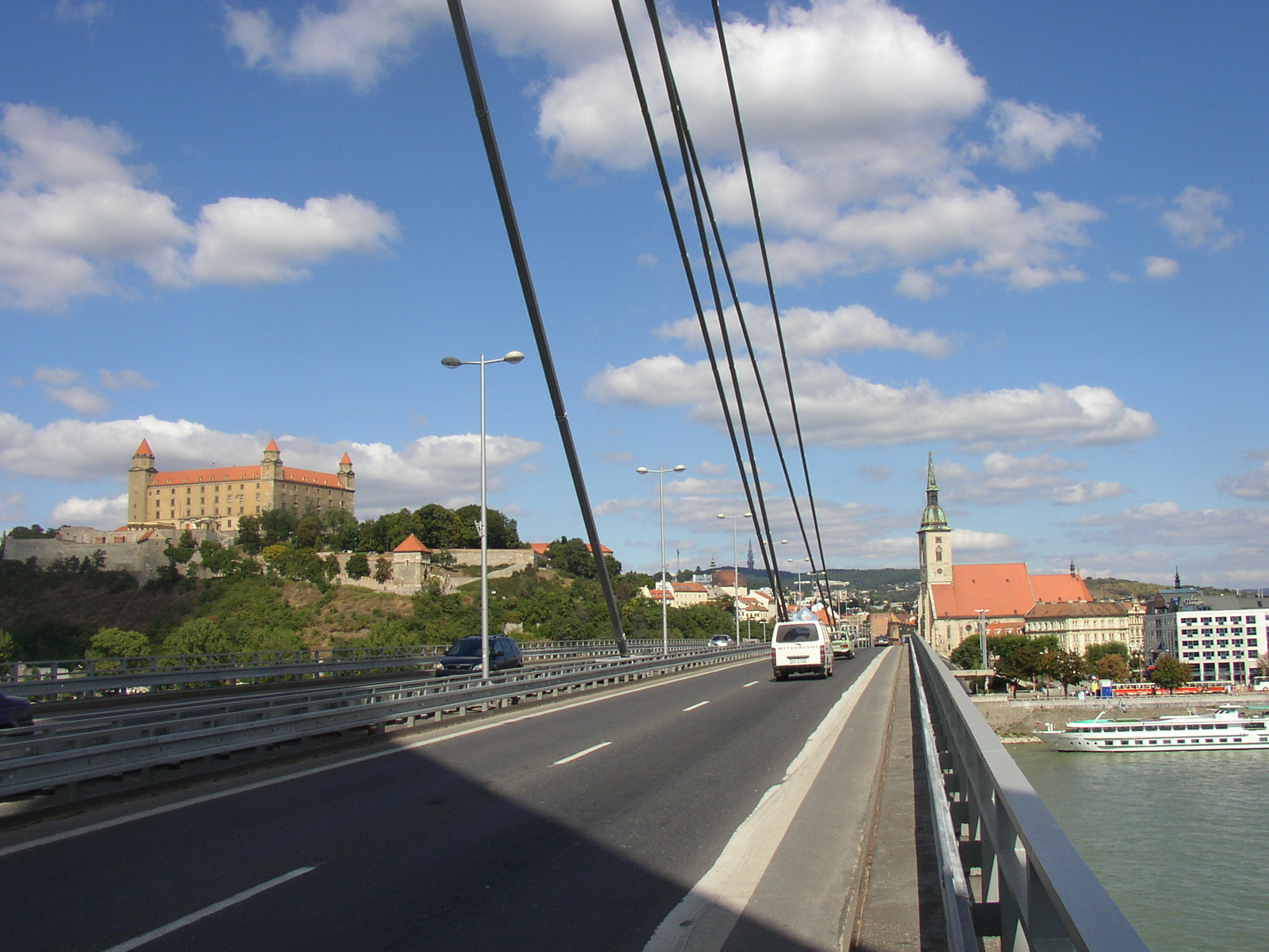 Bratislava Castle and St. Martin Cathedral as seen from the New Bridge, September 2004Slovenčina: category:Bratislavský hrad a konkatedrála sv. Martina, pohľad z Nového mosta, september 2004